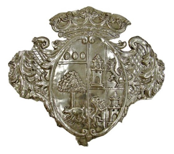 SHIELD OF THE GENERAL COMMANDER EMPARAN IN THE ALTAR-TABERNACLE OF THE HOLY CHRIST OF LA LAGUNA